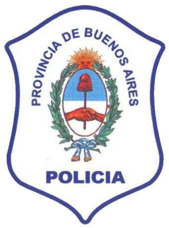 Emblem of the Buenos Aires Provincial Police, with the national coat of arms of Argentina in the centre.